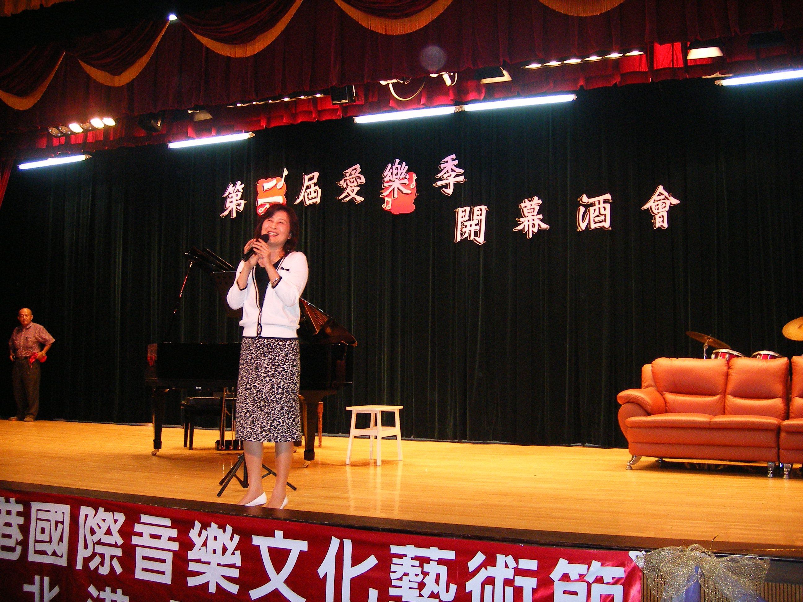 Yunlin County Governor Su Ji-Feng in the opening event of the first Beigang International Music Festival, 2006